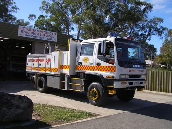 taken by author of a 24p fire applyance